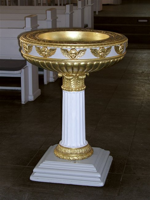 Vicelin-church of Neumünster- baptismal font, Schleswig-Holstein, Germany